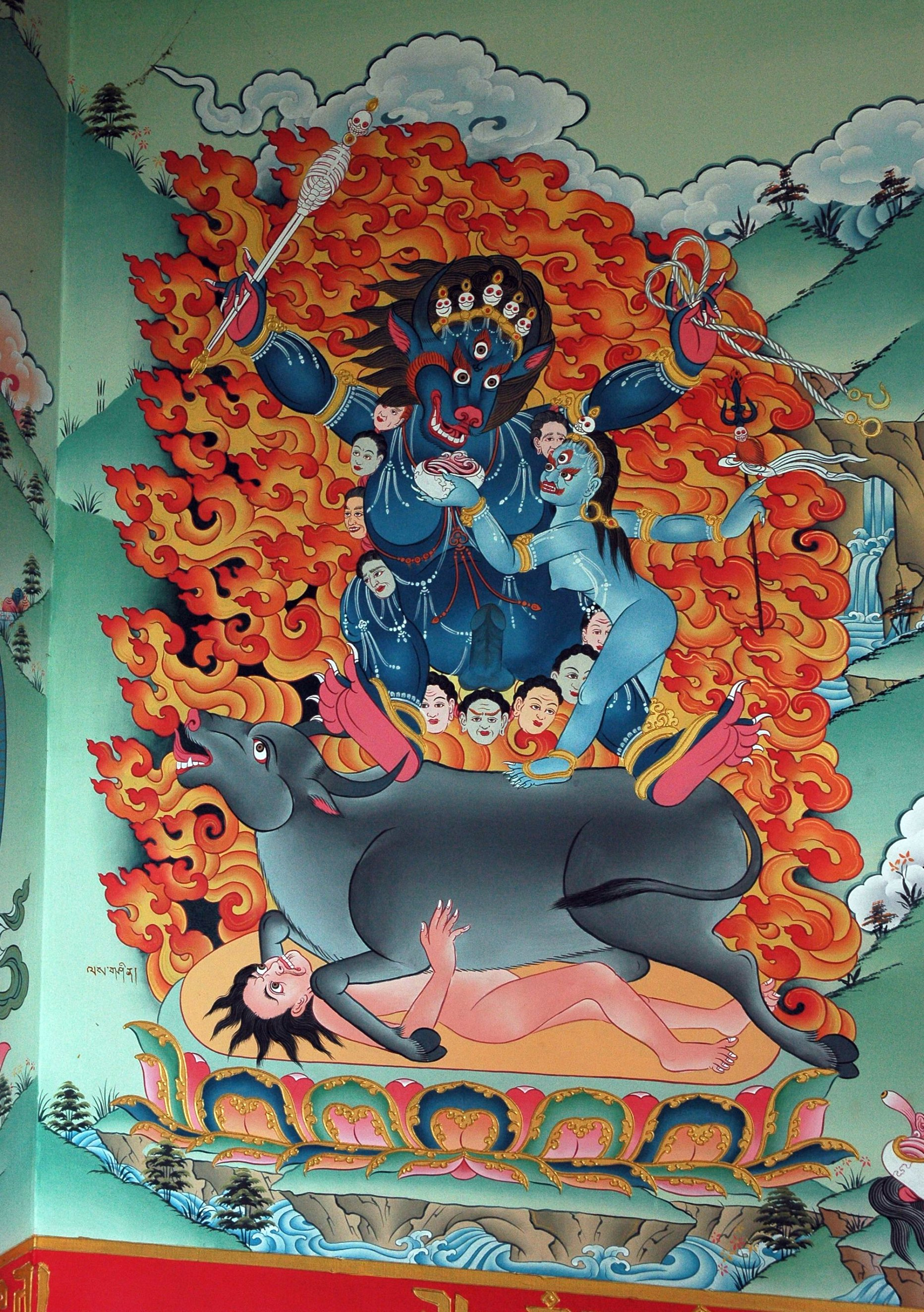 Yamāntaka riding an buffalo (Sanskrit: यमान्तक Yamāntaka; Tibetan: Shinjeshe, གཤིན་རྗེ་གཤེད་, རྡོ་རྗེ་འཇིགས་བྱེད།, gshin rje gshed; rdo rje 'jigs byed) a Mahayana Yidam, holding skeleton wand & noose, consort, flames of wisdom Pharping, Nepal